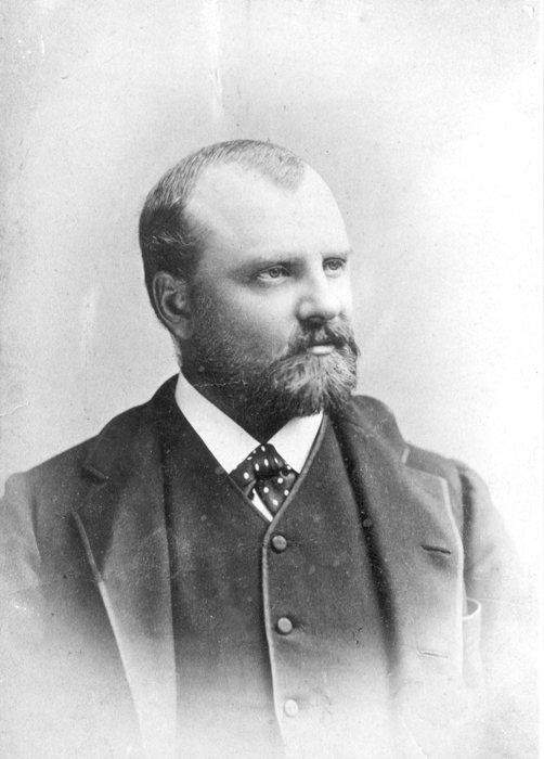 The image represents Clarence King, the first director of United States Geological Survey